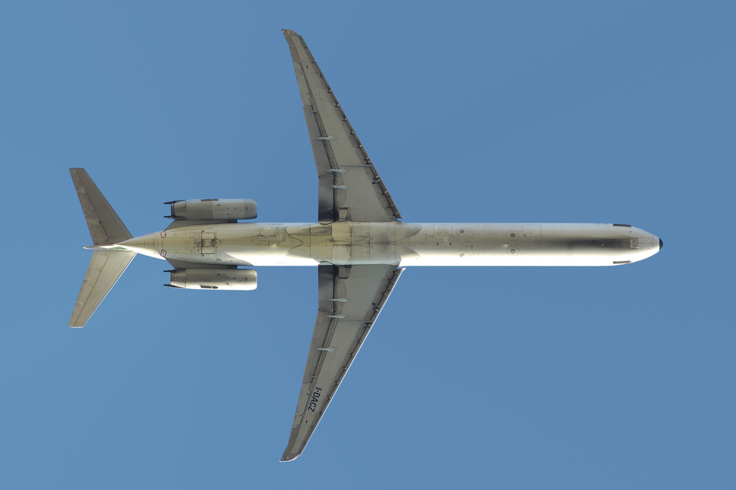 Alitalia McDonnell Douglas MD-82 (I-DACZ) takes off (over my head) from London Heathrow Airport, England. The undercarriages have retracted.